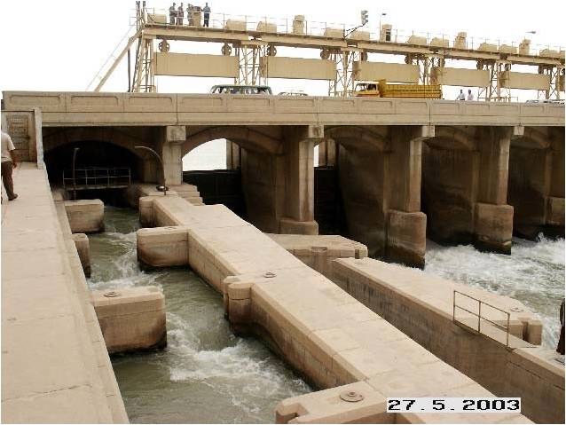 The Kut Barrage's fish ladder in Iraq.